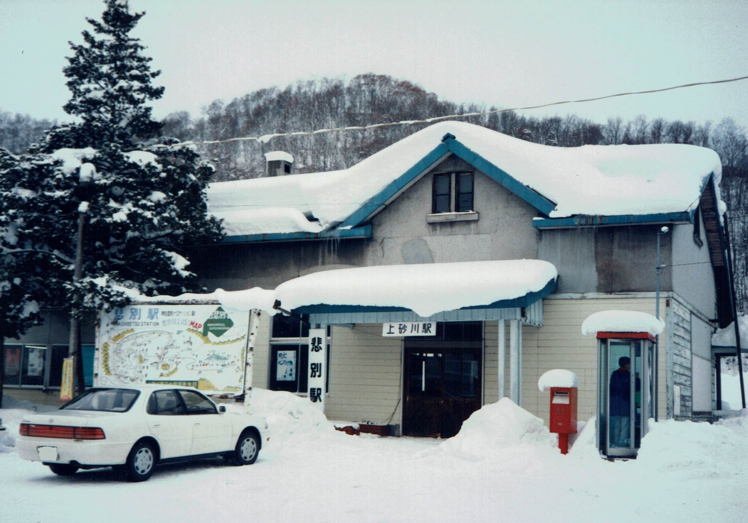 Kami-Sunagawa Station on the Hakodate Main Line in Hokkaido